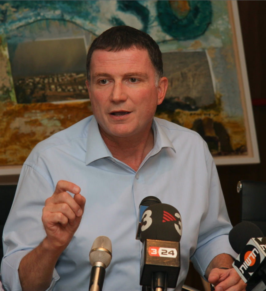 Yuli Edelstein, Minister of Public Diplomacy an Diaspora Affairs of the State of Israel